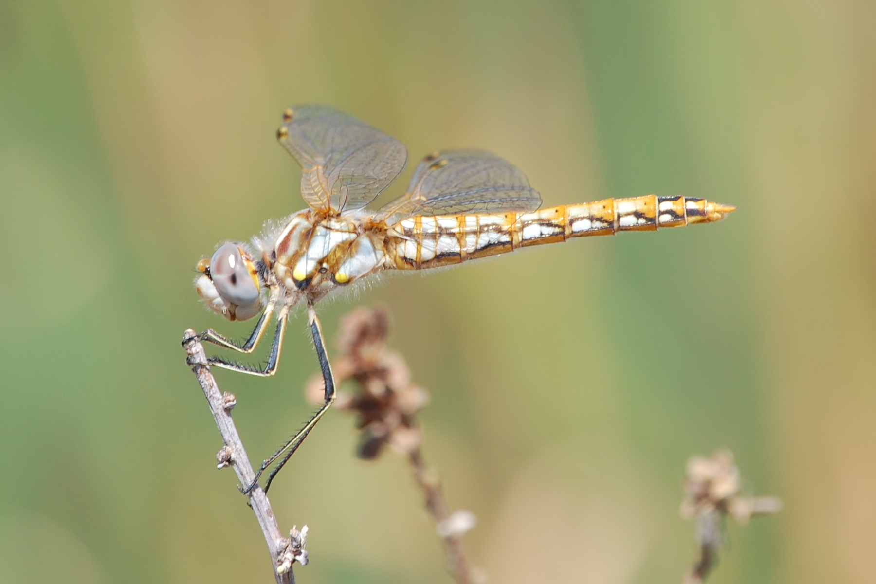 Variegated Meadowhawk. Female